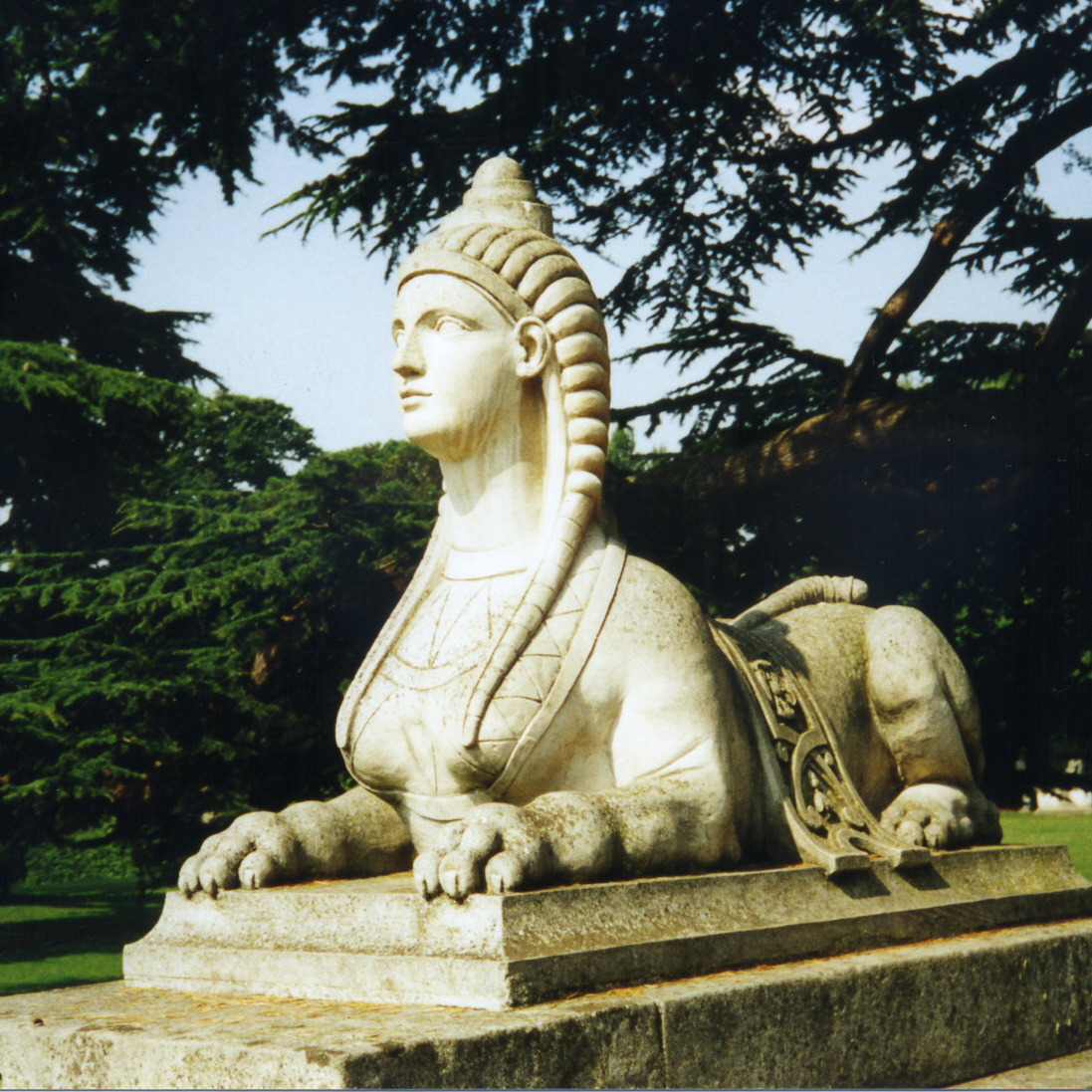 Chiswick House: a statue on the lawns near the cedar trees.